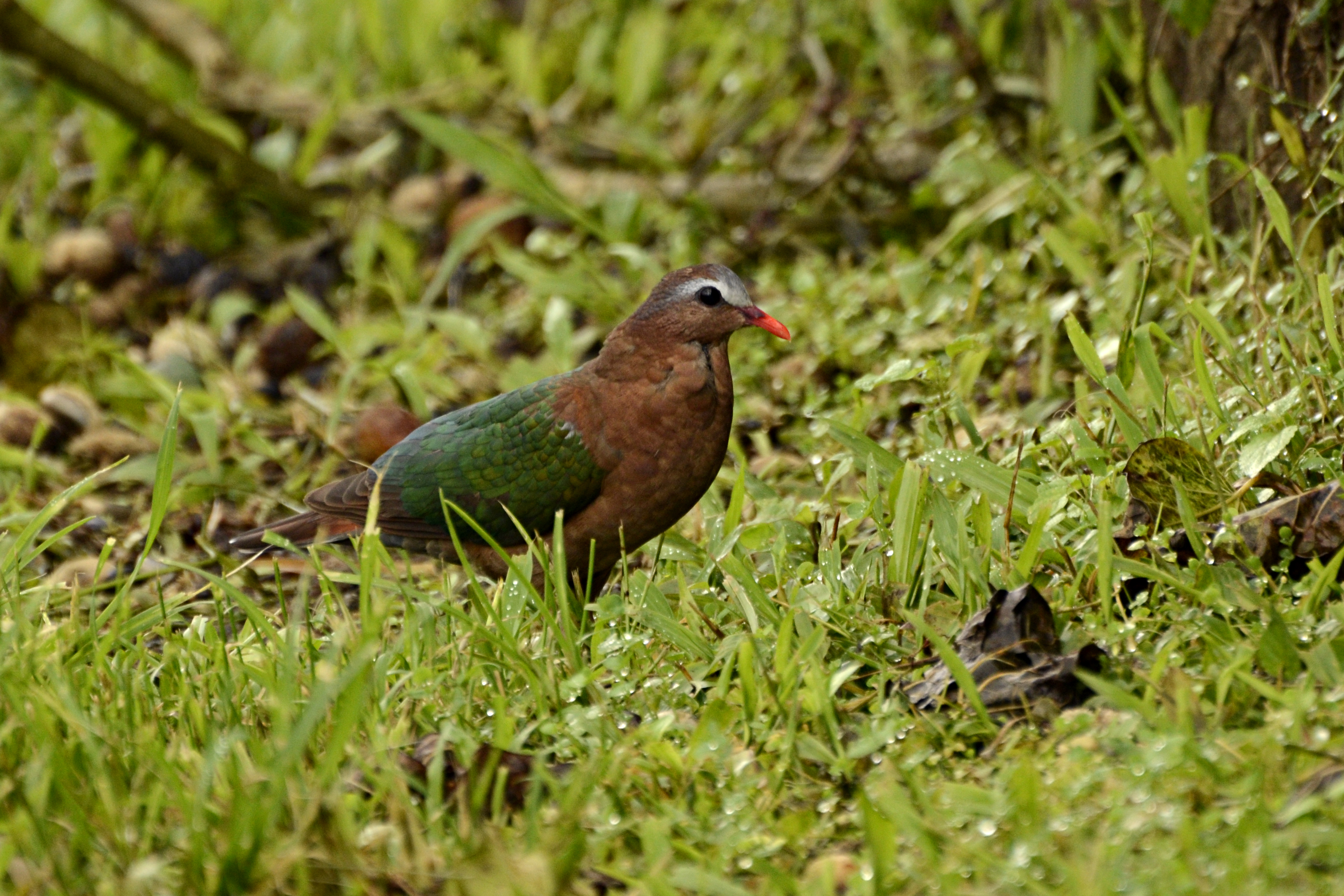 Common emerald dove Chalcophaps indica in Anaimalai hills, Southern Western Ghats, India